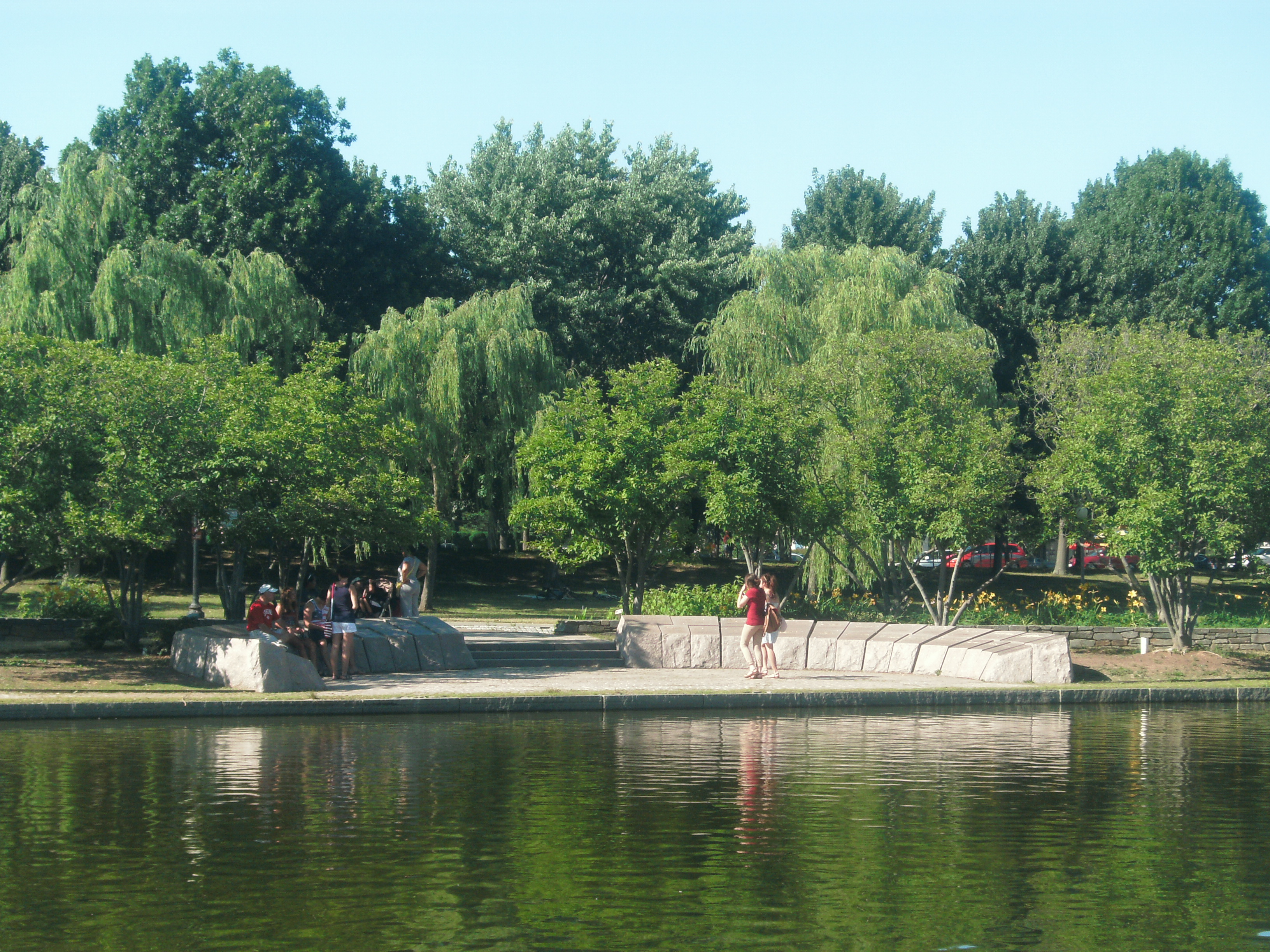 Memorial to the 56 Signers of the Declaration of Independence GEDSC DIGITAL CAMERA